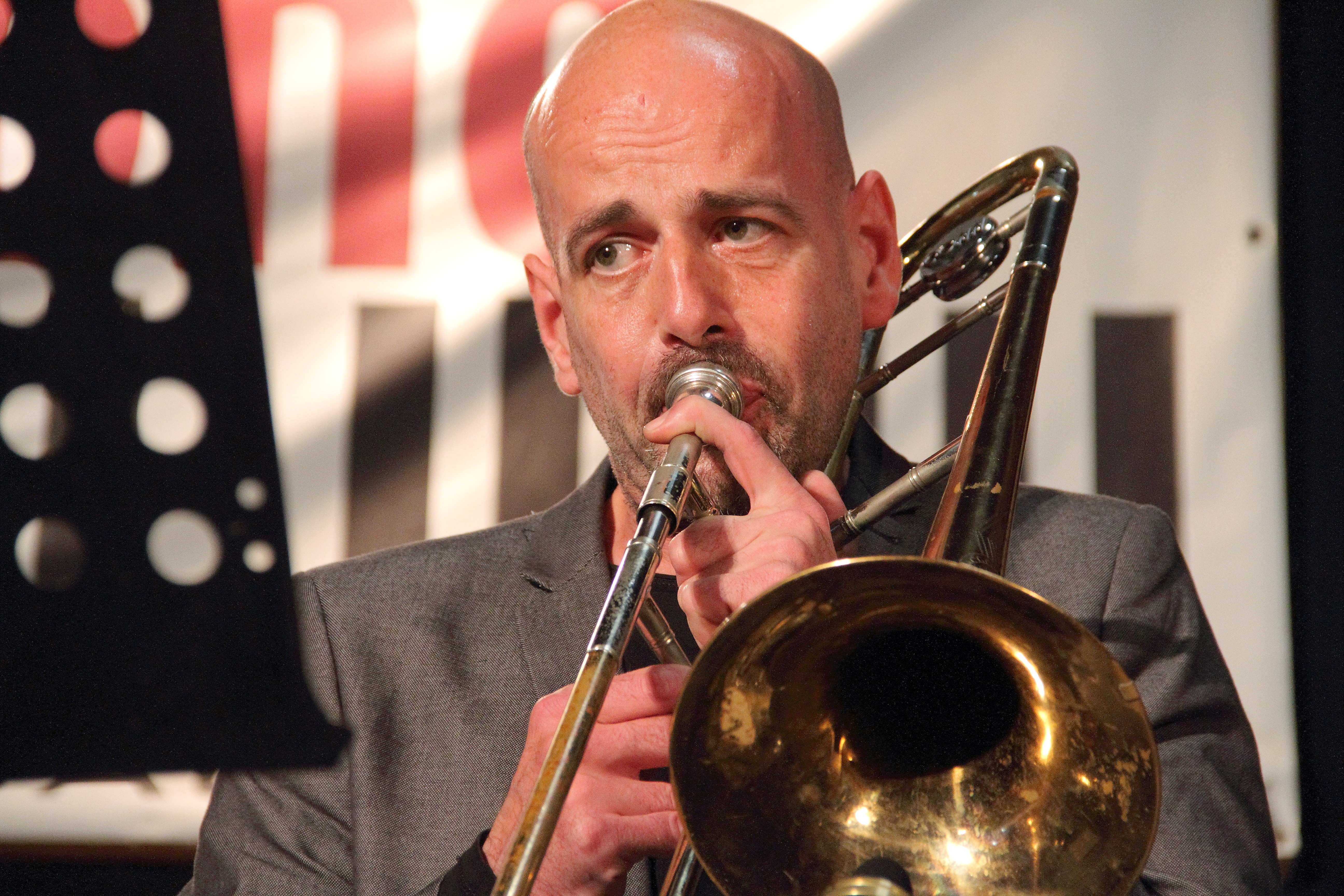 Raul de Souza and his Next Generation Band at INNtöne Jazzfestival 2018.